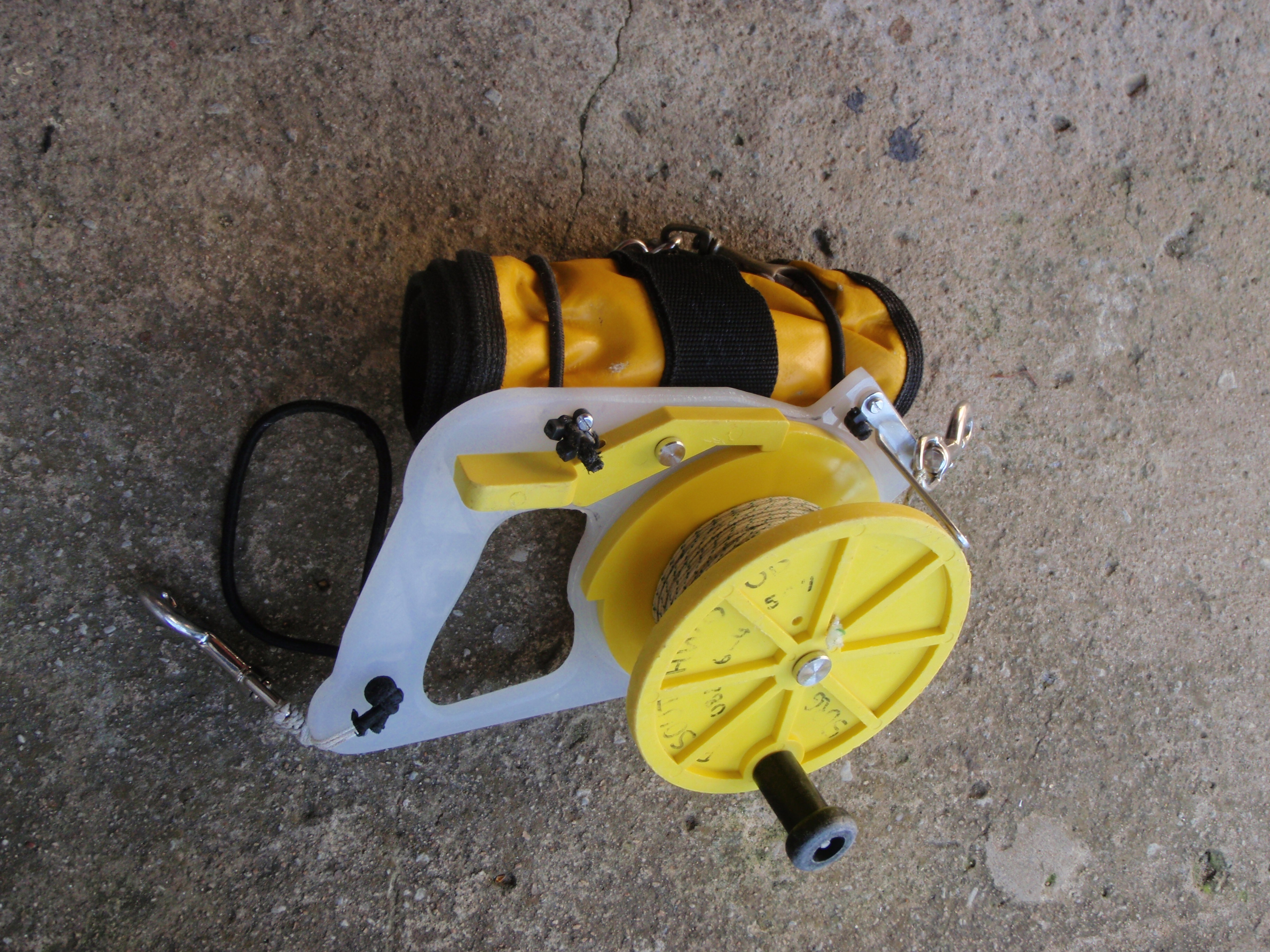 Diver's ratchet reel with DSMB and 100m of dacron 80kg braided fishing line